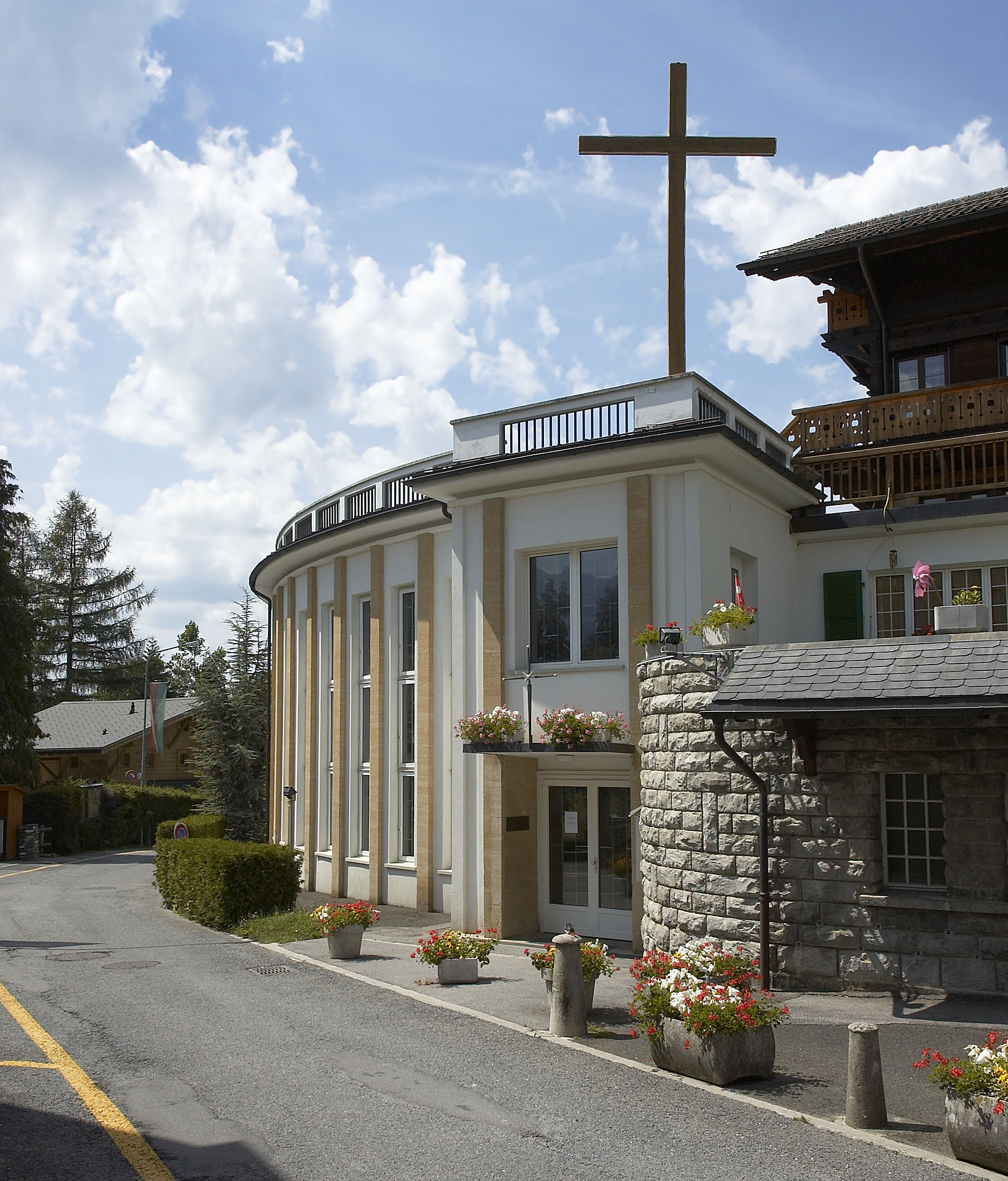 Catholic Church in Villars-sur-Ollon